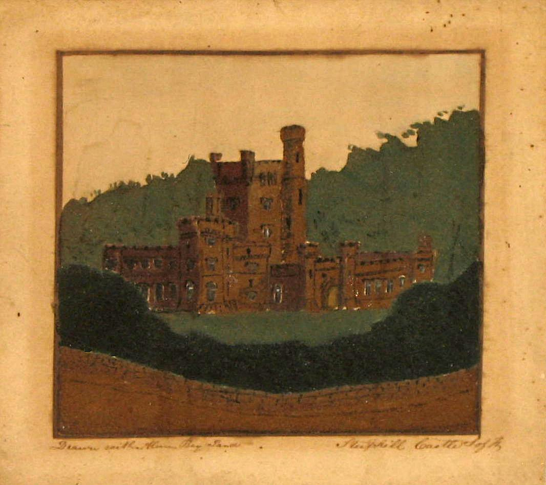 Victorian Sand Picture by Edwin Dore of Arreton, title written in indian ink using a mapping pen which reads:"Steephill Castle I.O.W." - "Drawn with Alum Bay Sands"